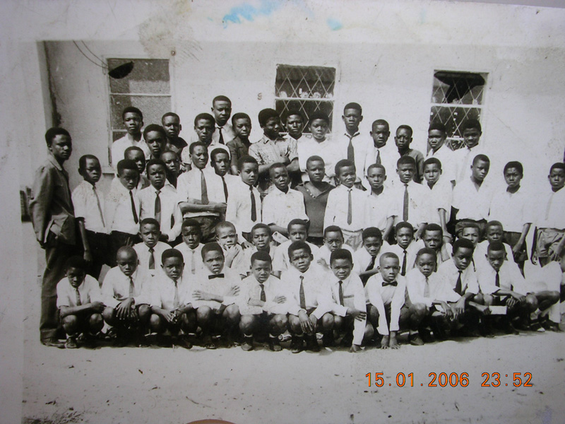 School St Gabriel Yolo-Nord 1969-1970 at Grade 6, Kinshasa - Zaire